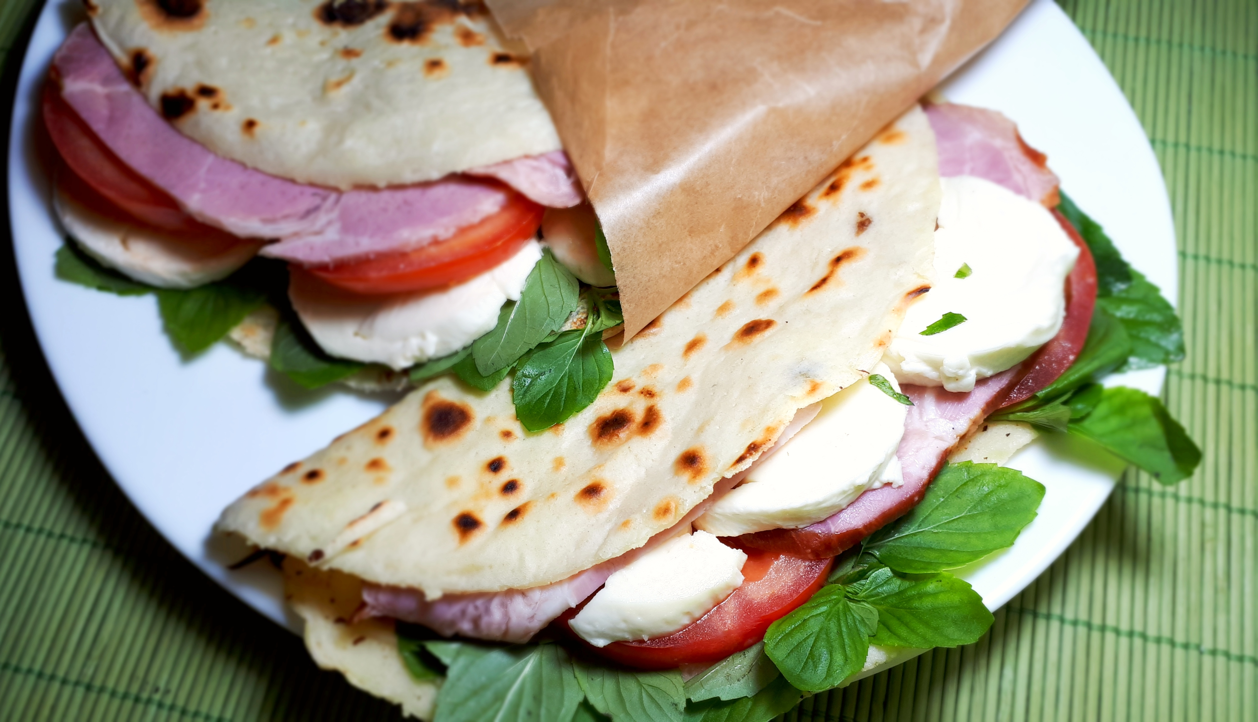 Piadina - Italian flatbread filled with cured-meat, cheese-mozzarella, tomato...